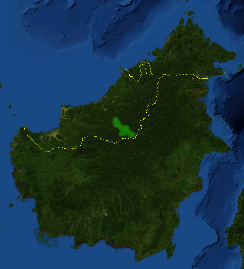 Distribution of Nepenthes platychila. Distribution: Hose Mountains